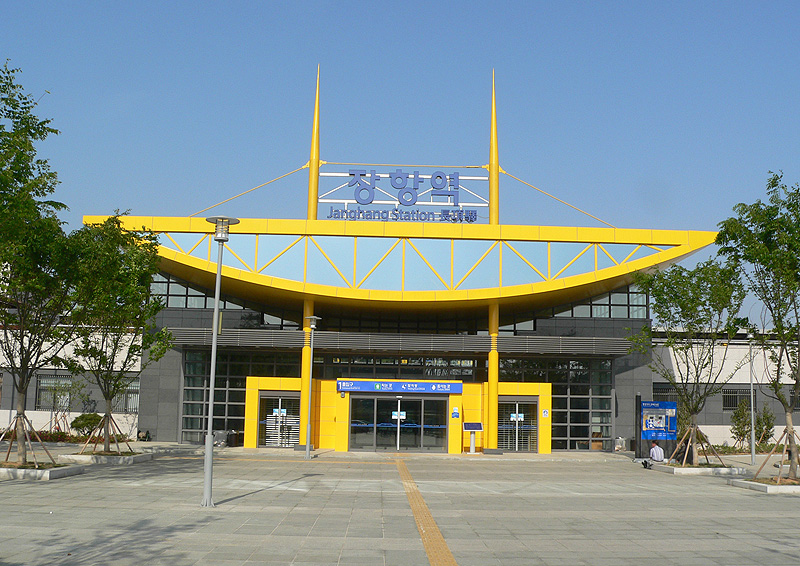 KORAIL (New) Janghang Station